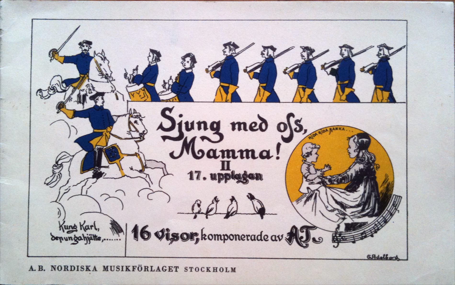 Songbook cover of Alice Tegnér: "Sjung med oss, Mamma!", part 2